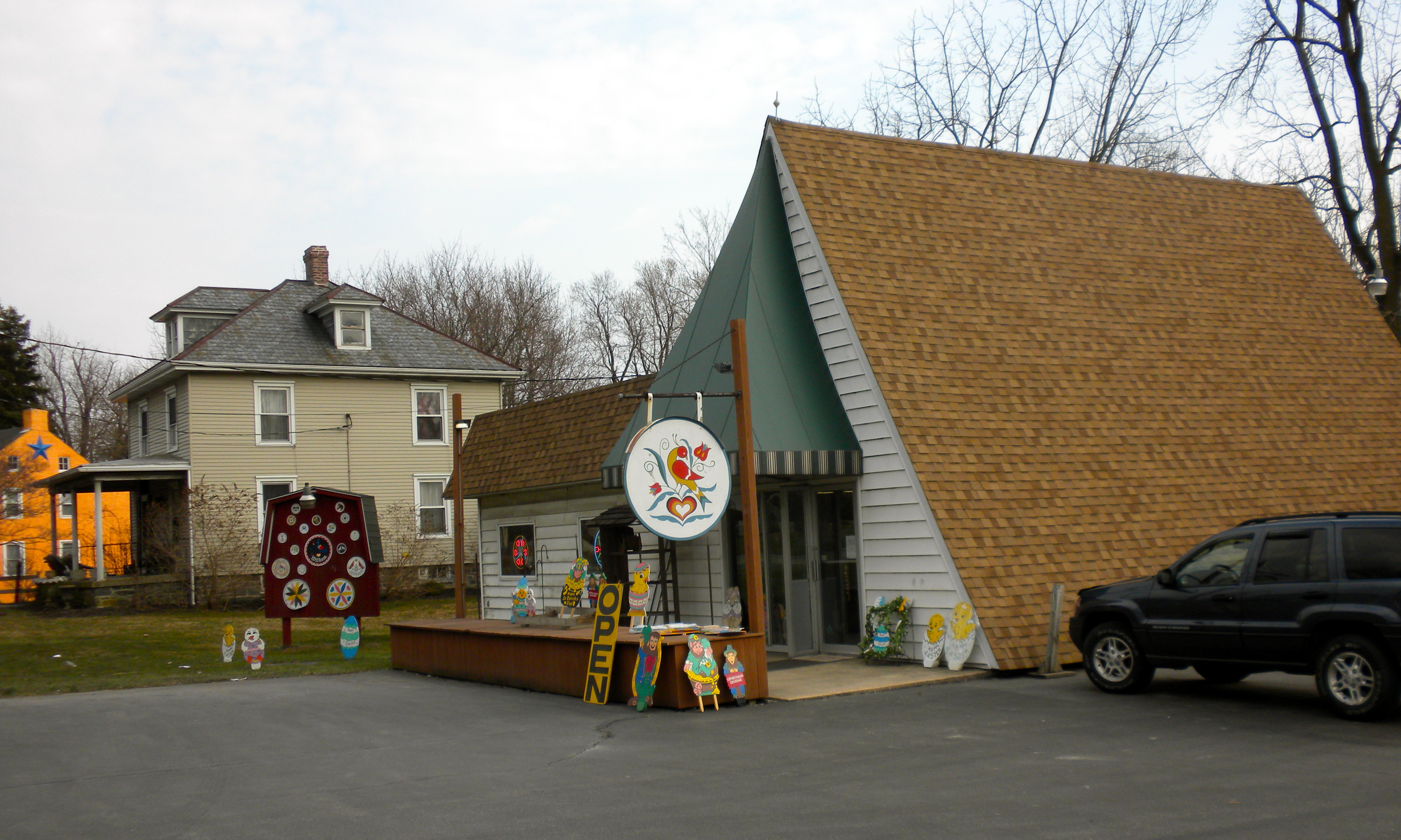 Souvenir shop in Paradise, Pennsylvania (Lancaster County) on US Route 30 (south side). Once owned by Jacob Zook and still owned by his family. Zook claimed to have introduced the modern souvenir version of the hex sign.